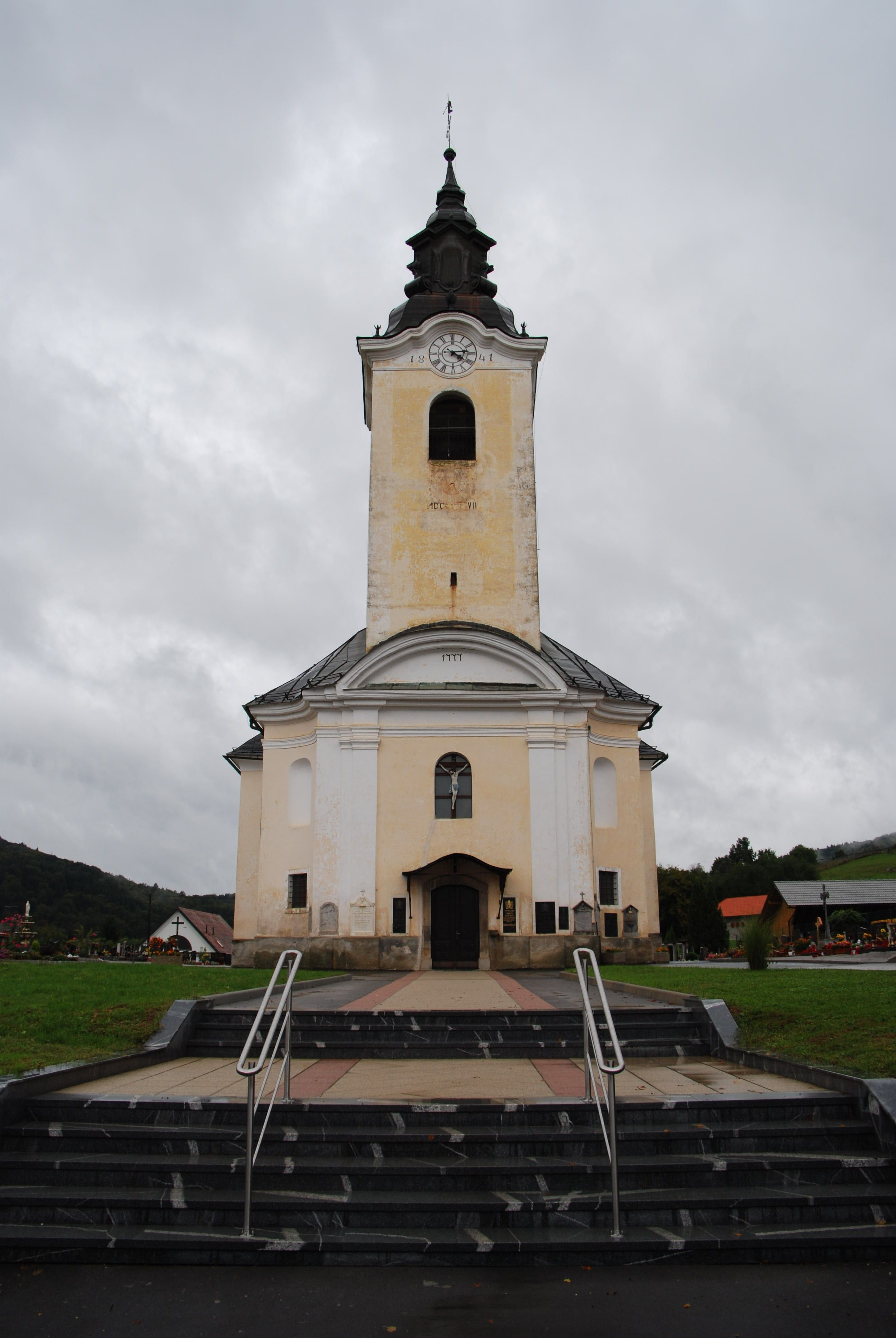 St. George's Parish Church in Dobrnič (Municipality of Trebnje, Slovenia). It was completed in 1777. The church stands at a slightly higher are in the centre of the village, in front of a cemetery. Heritage Registry Number 4137.